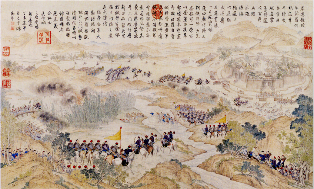 A scene of the Taiwanese campaign 1787-1788